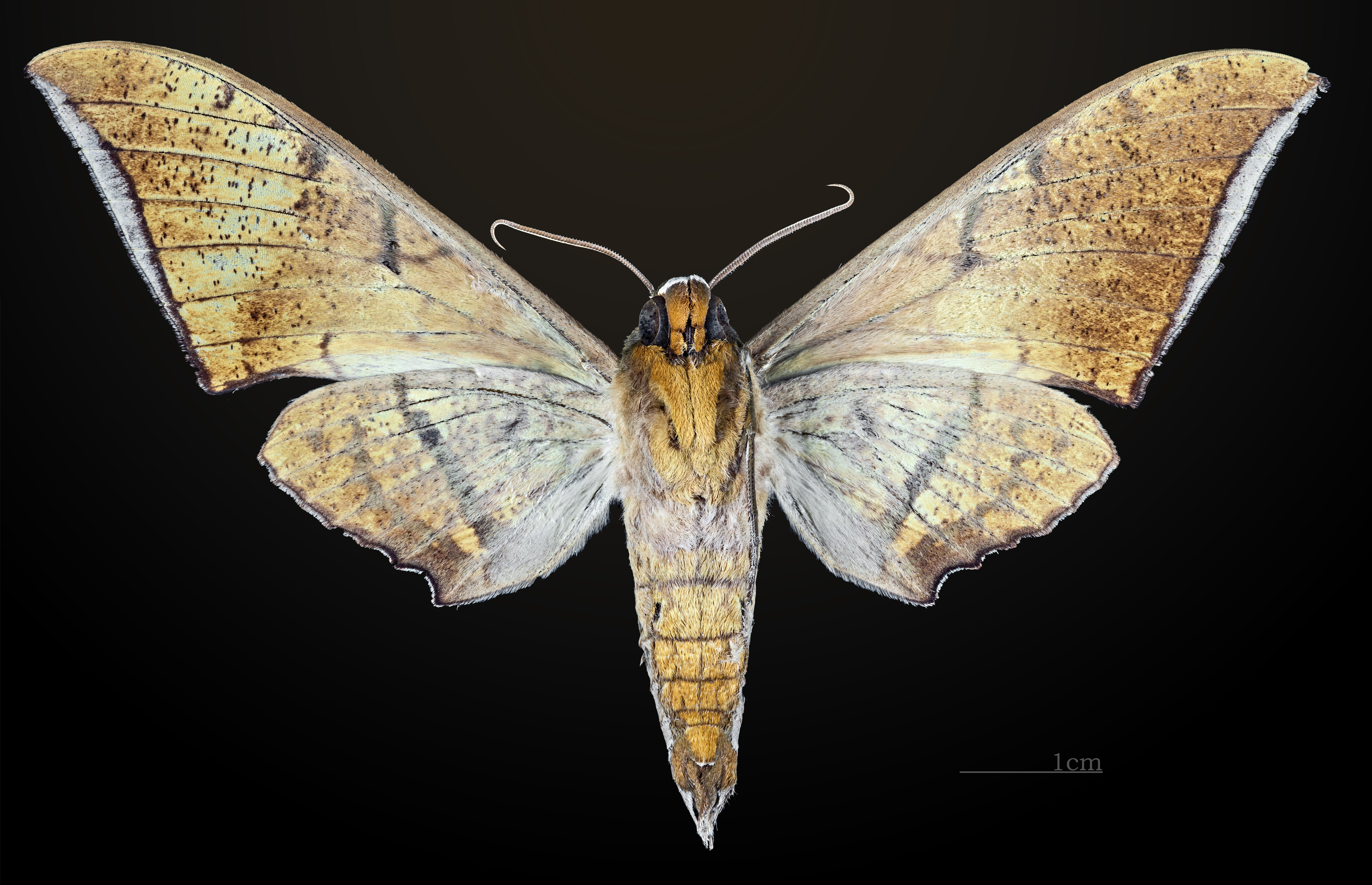 Ambulyx wildei - △ Ventral side Collection of the Mathematician Laurent Schwartz